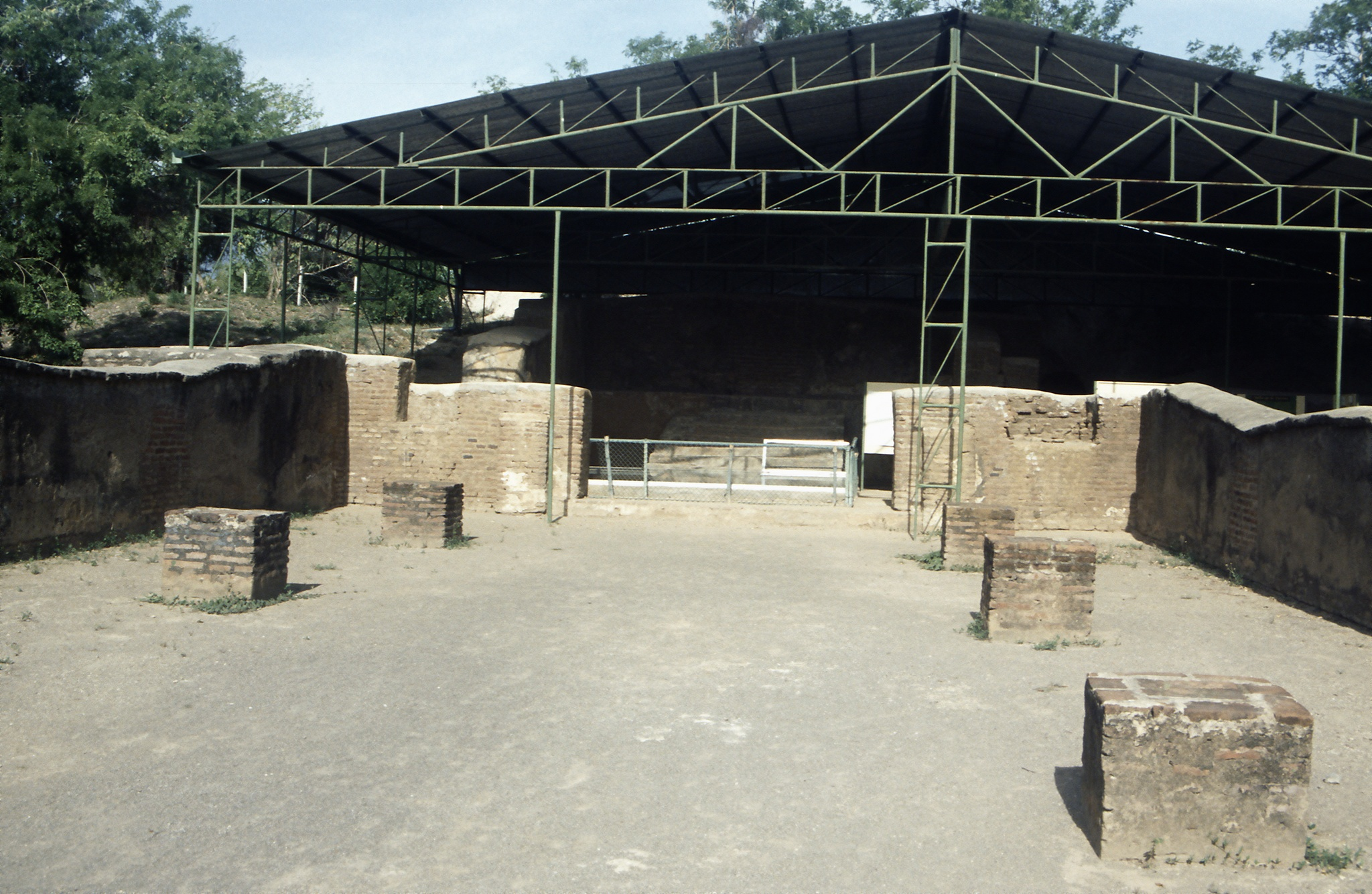 Ruins of León Viejo